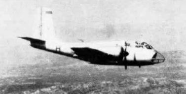 This is a Sud-Aviation SE-116 Voligeur, a contemporary and competitior of the SIPA S.1100.